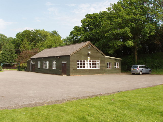 Tiddington Village Hall. View from the adjacent sports field.